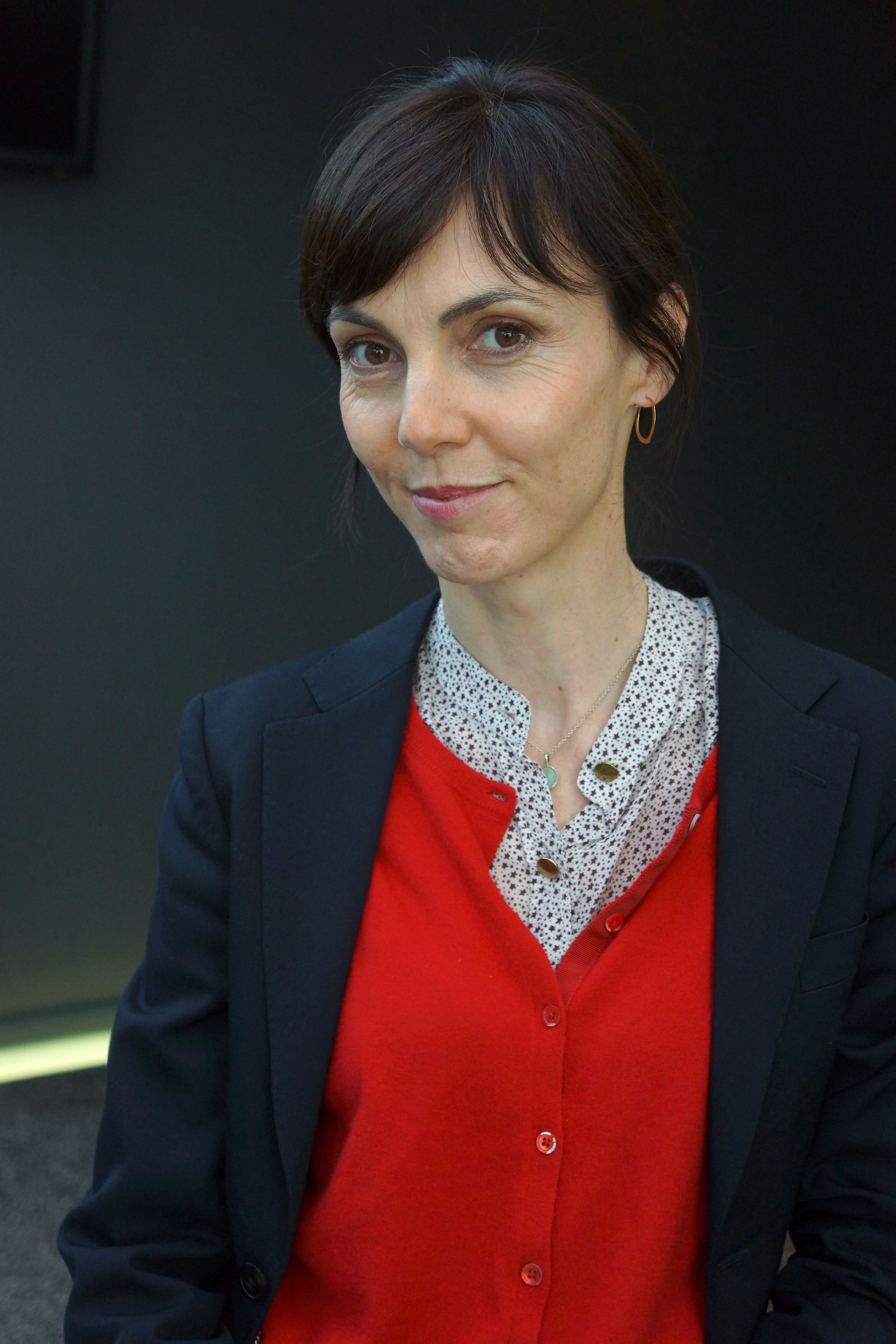 Emily Perkins in Frankfurt in October 2012.